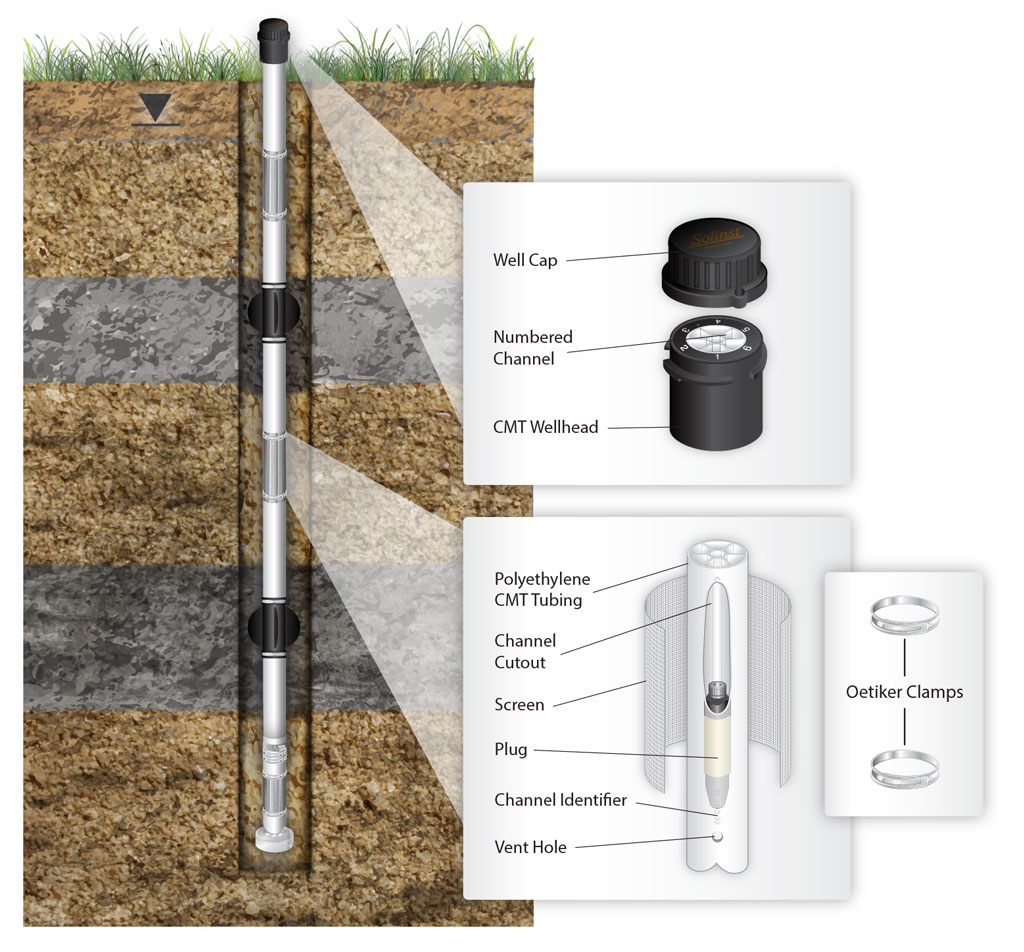 Typical 3 or 7 Channel Installations Bent and Sand